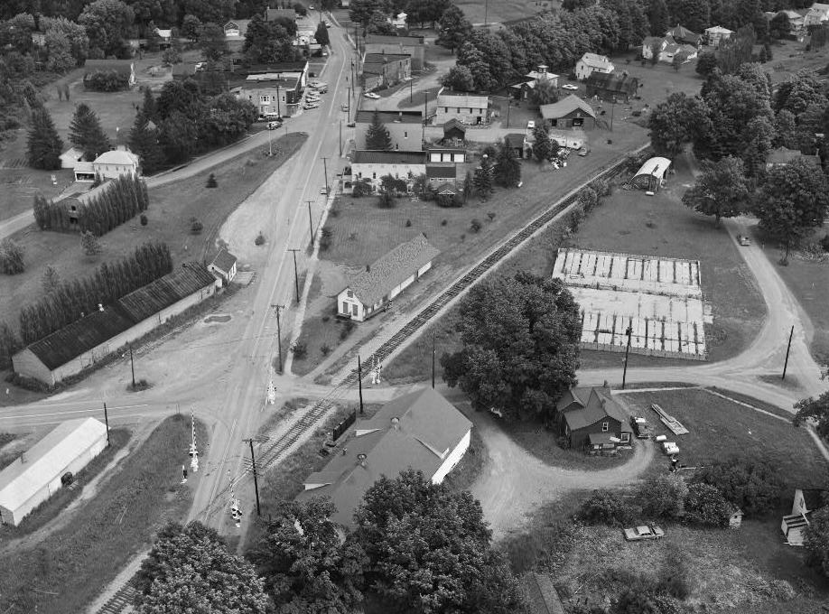 About this Item Title Delaware, Lackawanna & Western Railroad, Atlanta Passenger & Freight Station, Main & Beecher Streets, Atlanta, Steuben County, NY Contributor Names Historic American Engineering Record, creator Boucher, Jack Clement, Dan Created / Published Documentation compiled after 1968 Subject Headings - railroad stations - freight terminals - railroad companies - railroad industry - railroad locomotive industry - transportation industry - New York -- Steuben County -- Atlanta Notes - Significance: The station at Atlanta is a representative example of the "combination" station (one that has the ability to service both freight and passengers separately under the same roof). This station is very similar to another, D, L & W station in Vestal, New York (NY-50), suggesting that the D, L & W used "stock" plans for the small stations along the line. - Survey number: HAER NY-58 - Building/structure dates: 1882 Initial Construction Medium Photo(s): 2 Data Page(s): 2 Photo Caption Page(s): 1 Call Number/Physical Location HAER NY,51-ATLA,1- Source Collection Historic American Engineering Record (Library of Congress) Repository Library of Congress Prints and Photographs Division Washington, D.C. 20540 USA Control Number ny0760 Rights Advisory No known restrictions on images made by the U.S. Government; images copied from other sources may be restricted. Language English Online Format image pdf Description Photo(s): 2 | Data Page(s): 2 | Photo Caption Page(s): 1